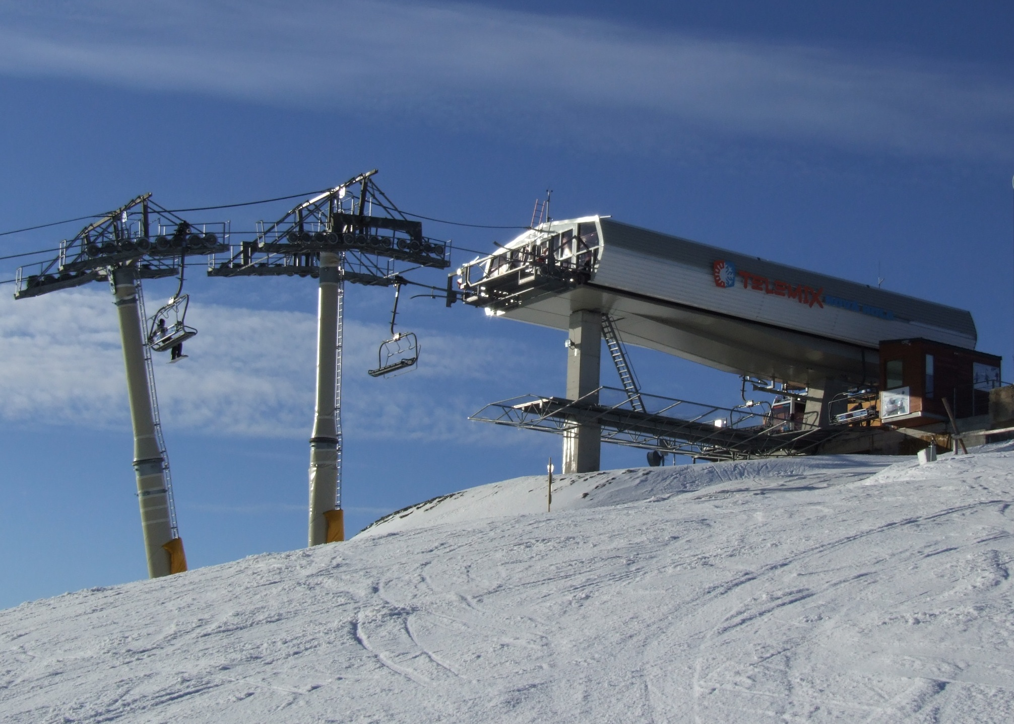 Chairlift in Park Snow Donovaly, Slovakia